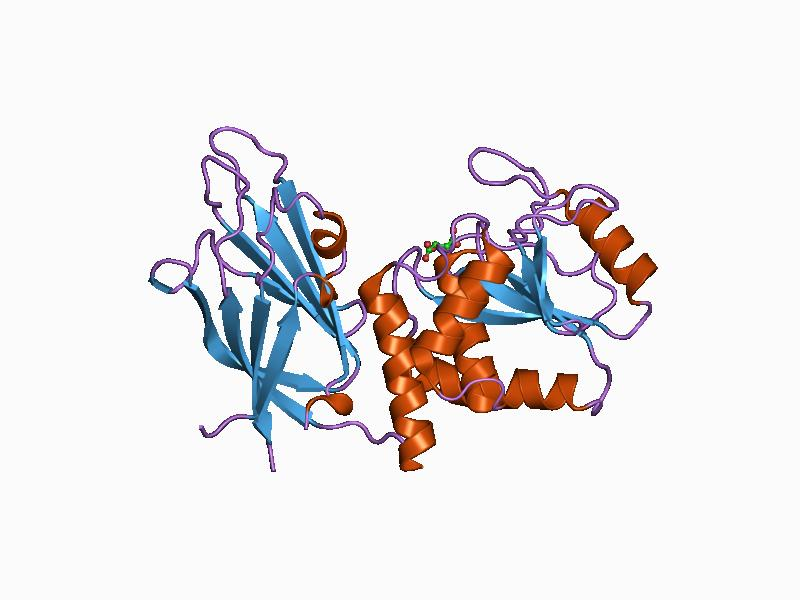 Cartoon representation of the molecular structure of protein registered with 1d5r code.